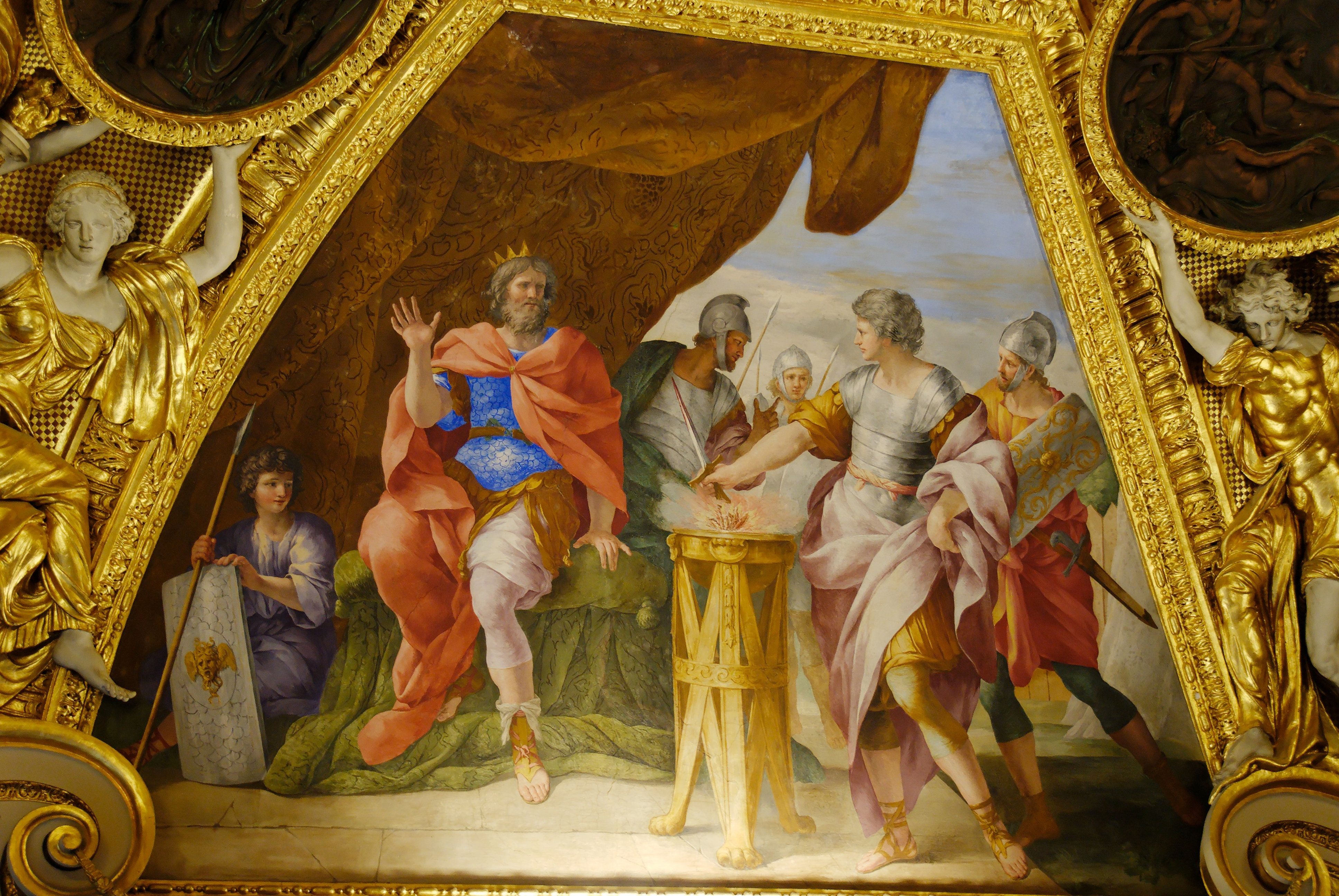 Mucius Scævola before Porsenna by Giovanni Francesco Romanelli (1612–1660), one of a series of ceiling frescoes about the feats performed by Roman warriors, 1655–1658. Queen's Cabinet, Sully wing, Louvre Palace.